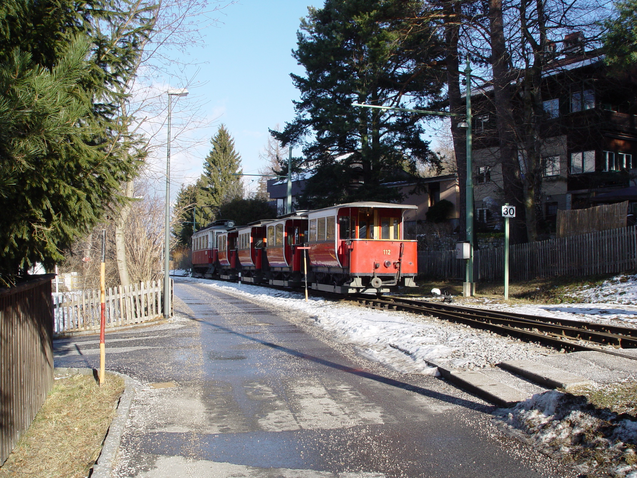 A 5-car tram set, composed of 1909-built tramcar No. 3 hauling 1890s-built trailers 102+103+106+112, leaves Igls, bound for Innsbruck on the Mittelgebirgsbahn (also designated tram line 6 of IVB).